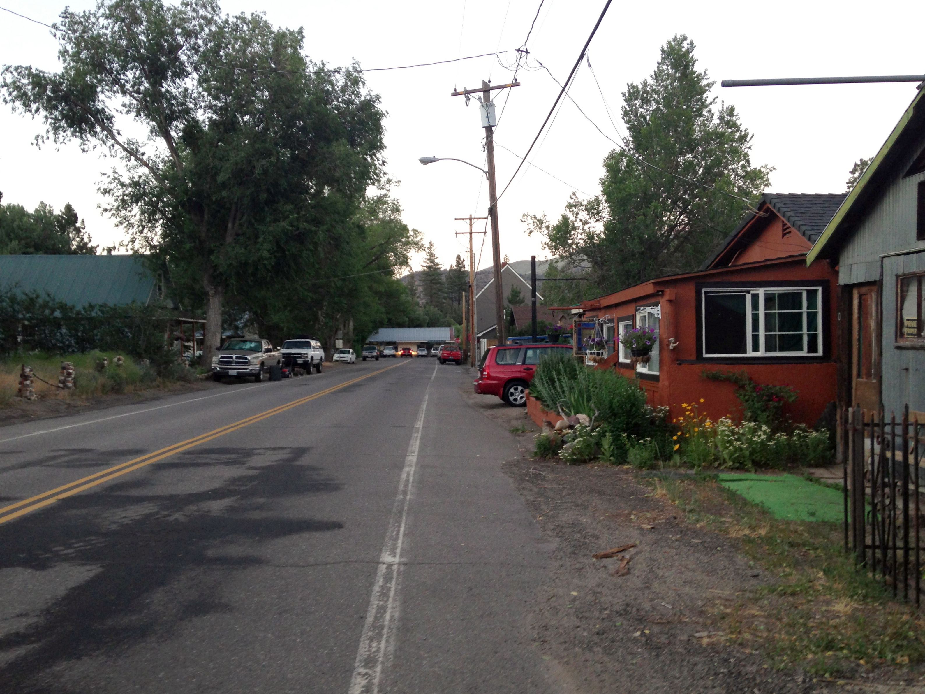 Downtown Markleeville, Alpine County, California